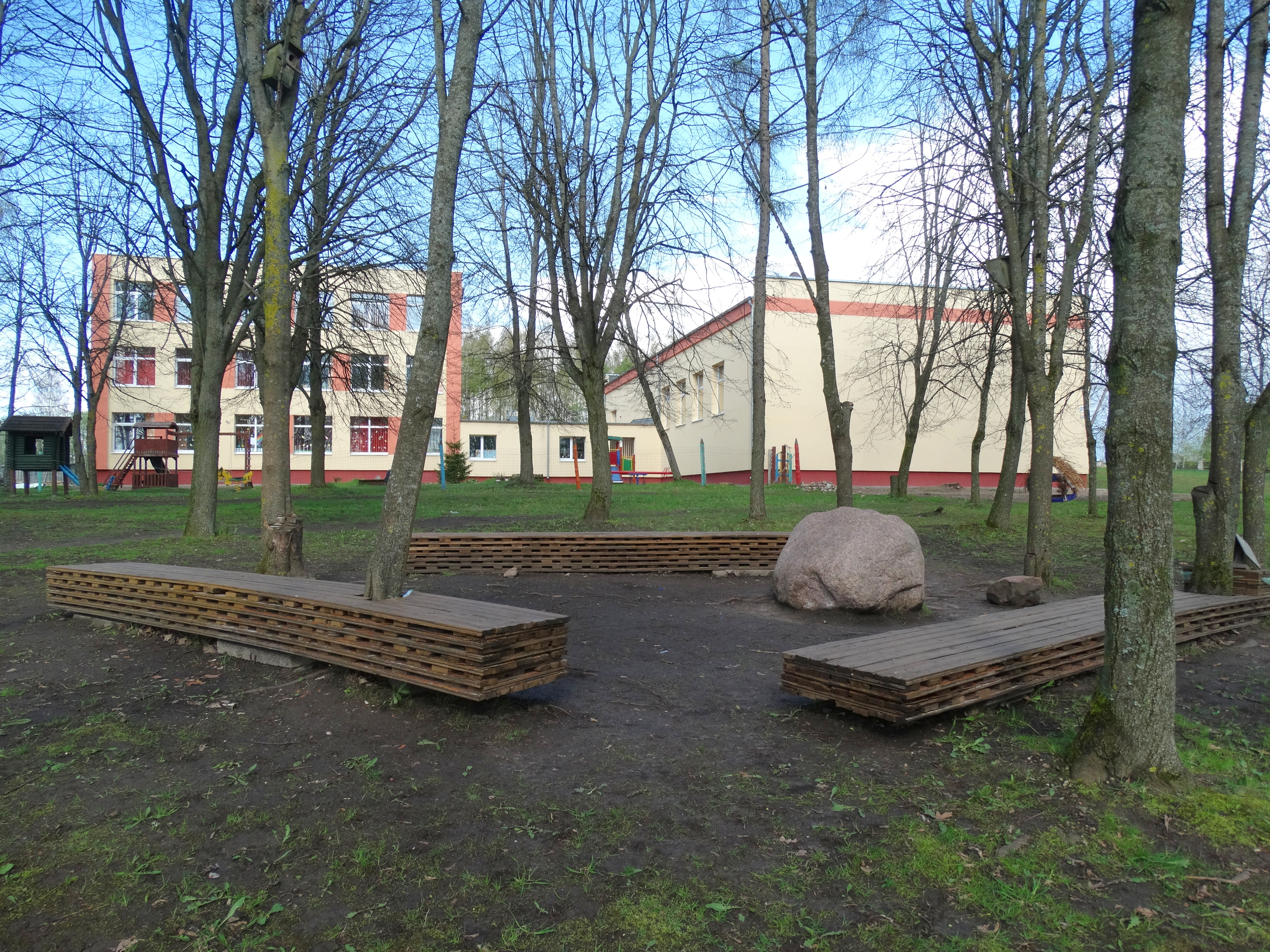 P.K. Brzostowski Gymnasium, Turgeliai, Šalčininkai District, Lithuania